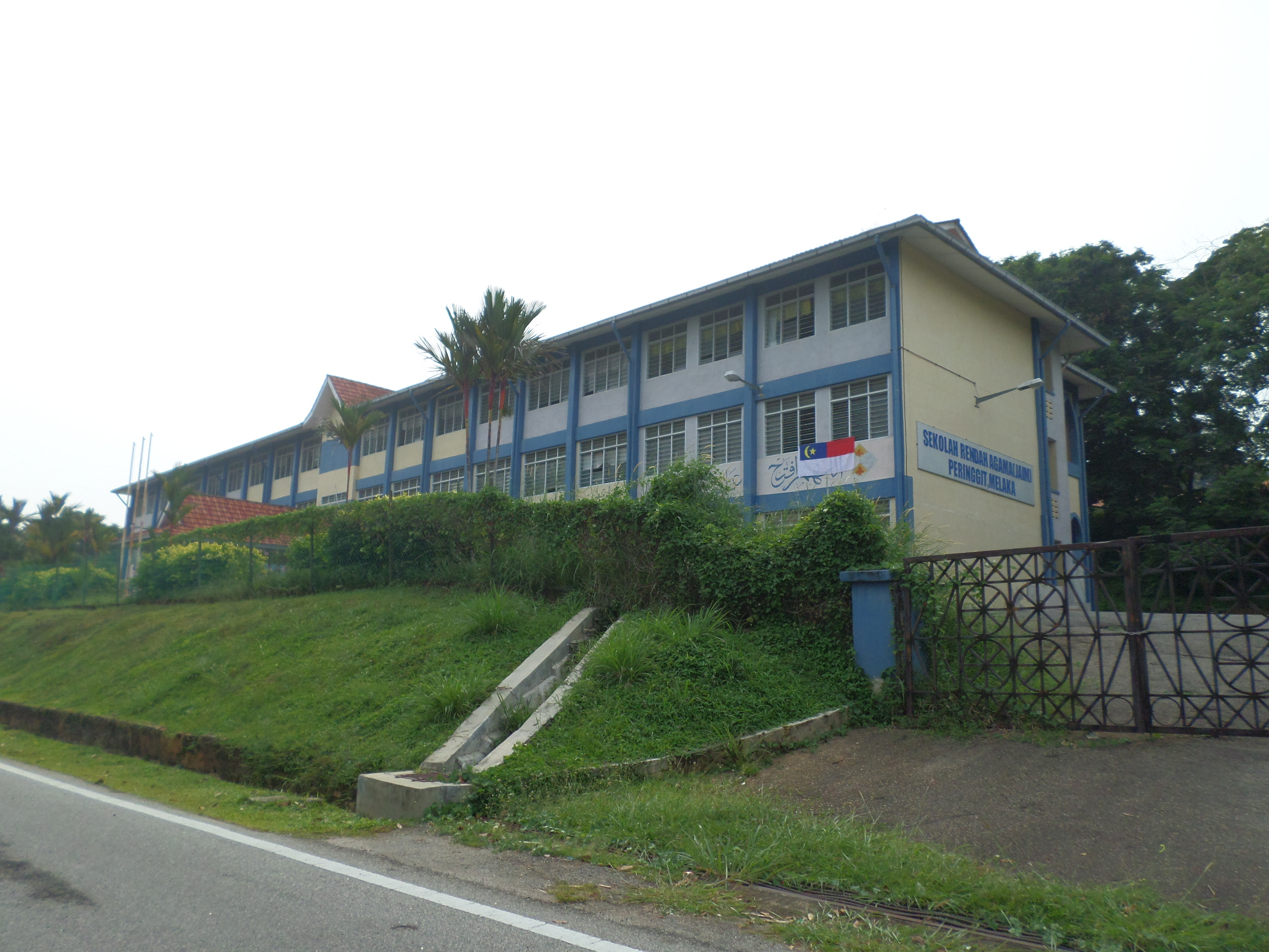 Peringgit Religious Primary School, Peringgit, Malacca, MalaysiaBahasa Melayu: Sekolah Rendah Agama Peringgit, Peringgit, Melaka, Malaysia